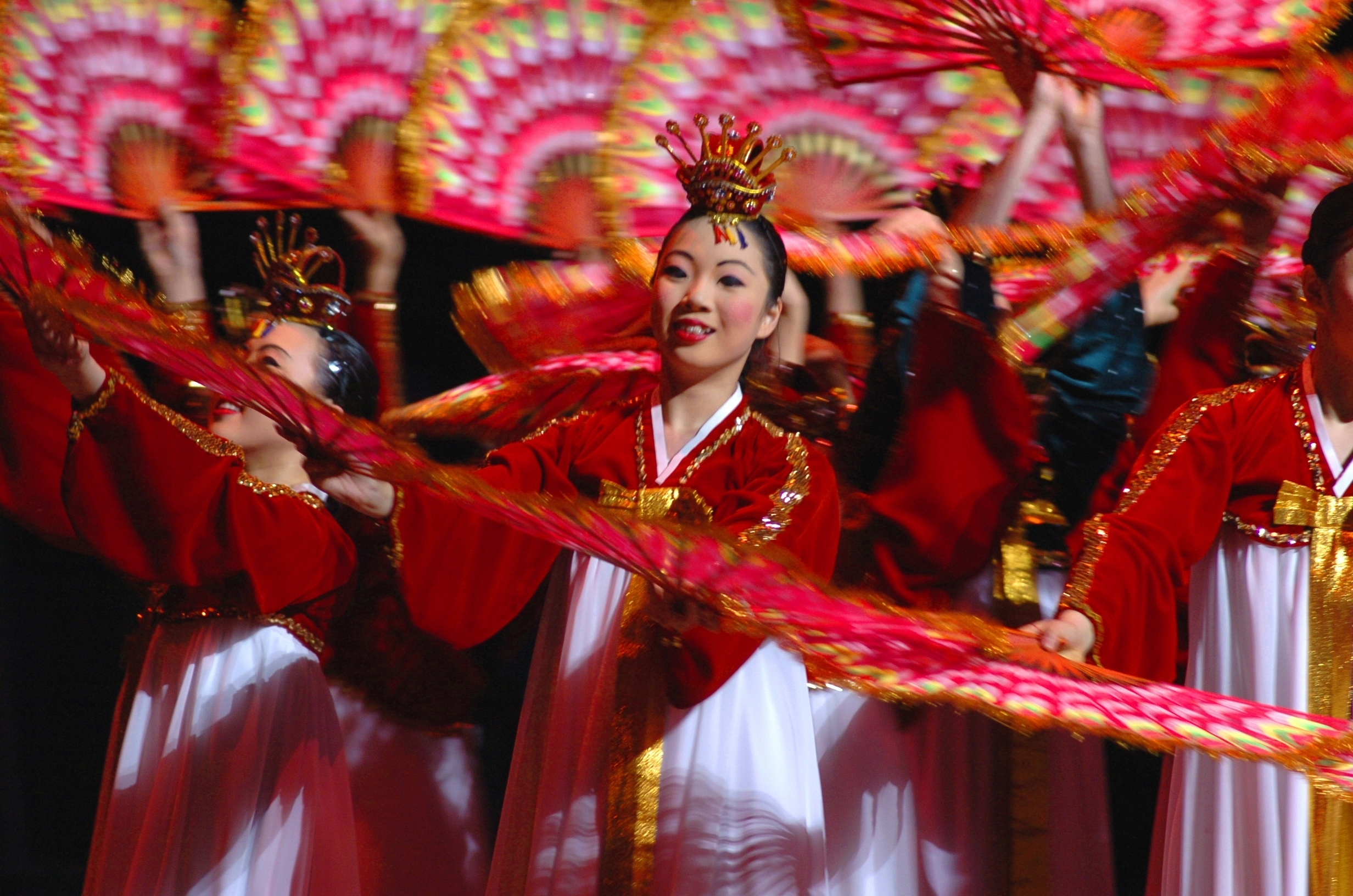 Dancers of the Little Angels performed Buchaechum, a traditional Korean pan dance at a performing arts center in Seoul. The troupe was established in 1962 to introduce Korean culture to the world by performing song and dance.